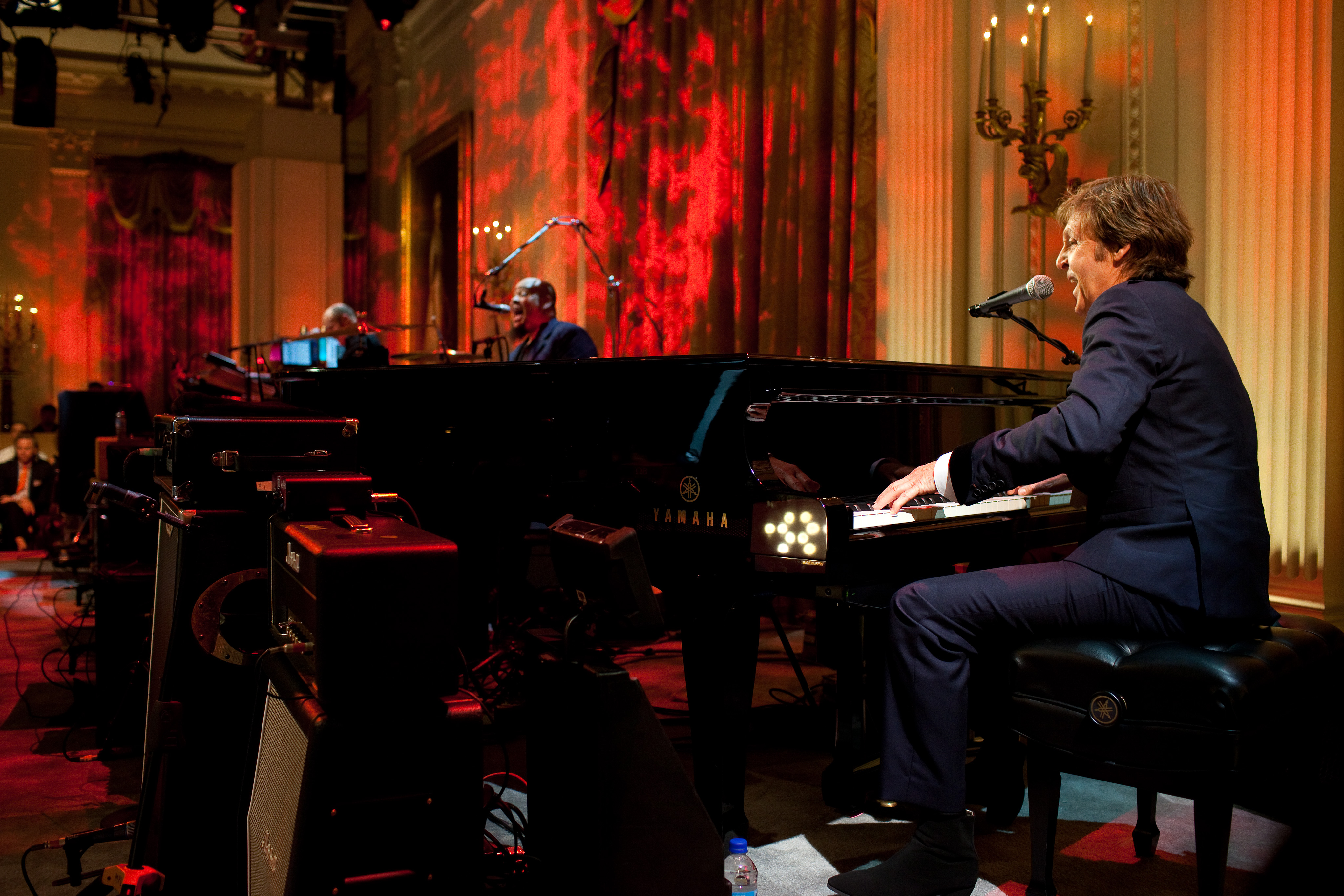 Paul McCartney performs during the Gershwin Prize concert honoring him in the East Room of the White House, June 2, 2010.